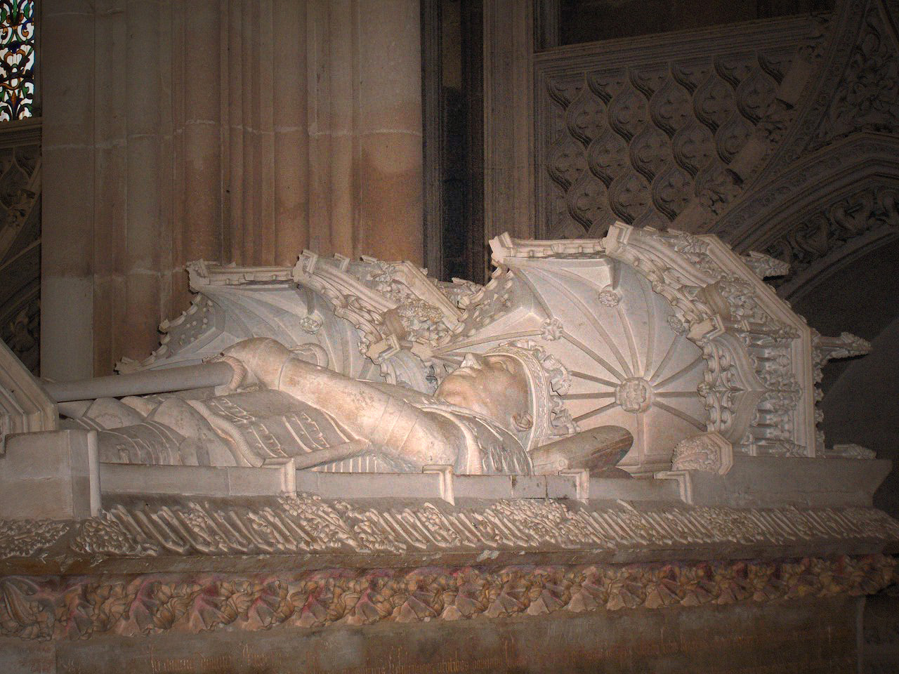 Tomb of King João I; Founder's chapel; Monastery of Batalha, Portugal